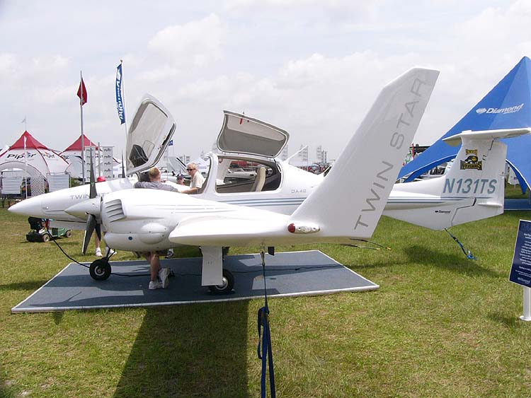 Diamond DA42 Twin Star at Sun 'n Fun 2006, Lakeland, Florida